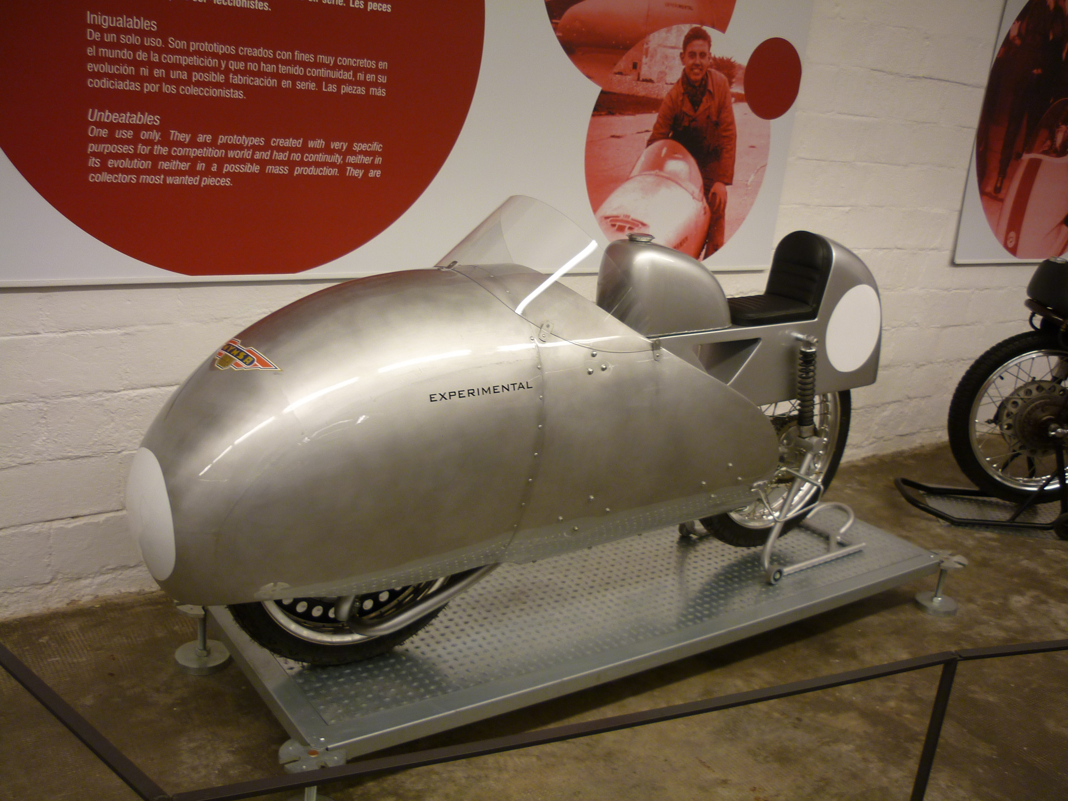 Mymsa Experimental 125cc, a prototype developed in 1955.